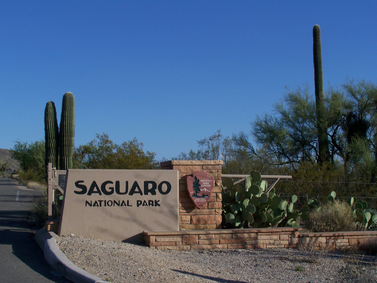 Photo of the entrance to Saguaro National Monument, Rincon District, on the east side of Tucson, AZ.